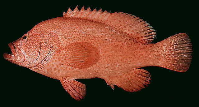 A Pacific Ocean specimen of the tomato hind Cephalopholis sonnerati by J.E. Randall in the Ryukyu Islands in Japan.